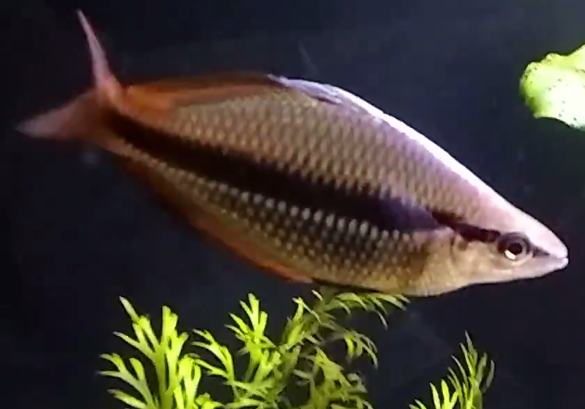 the male banded rainbowfish typically has dark orange/red fins.